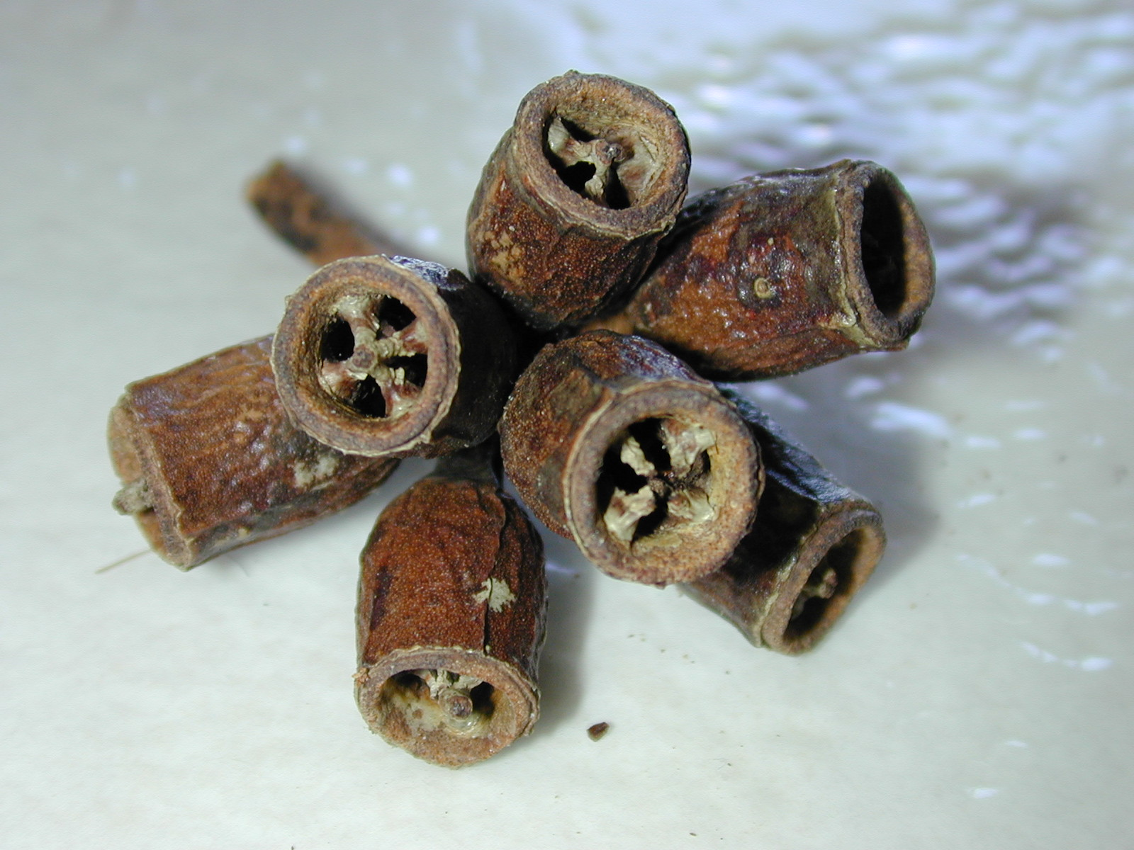 Eucalyptus robusta (cylindrical fruit flattened peduncles). Location: Maui, Hobdy collection